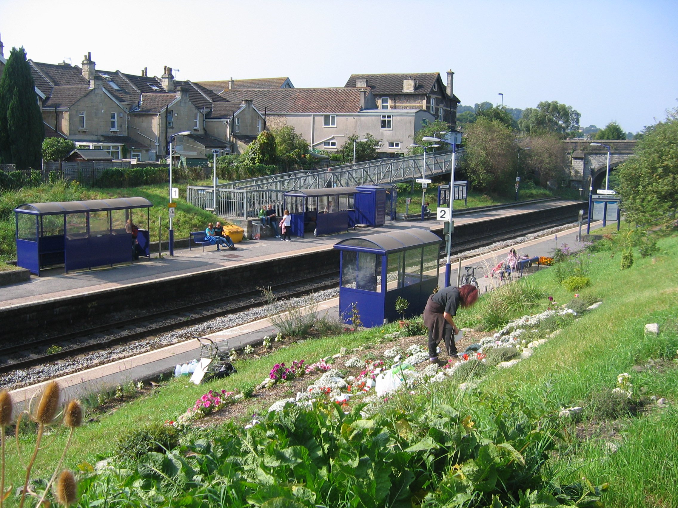 Oldfield Park station in Bath